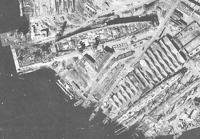 Luftwaffe aerial reconnaissance photo of the battleship Sovetsky Soyuz and a Chapaev-class cruiser under construction in the Baltic Shipyard